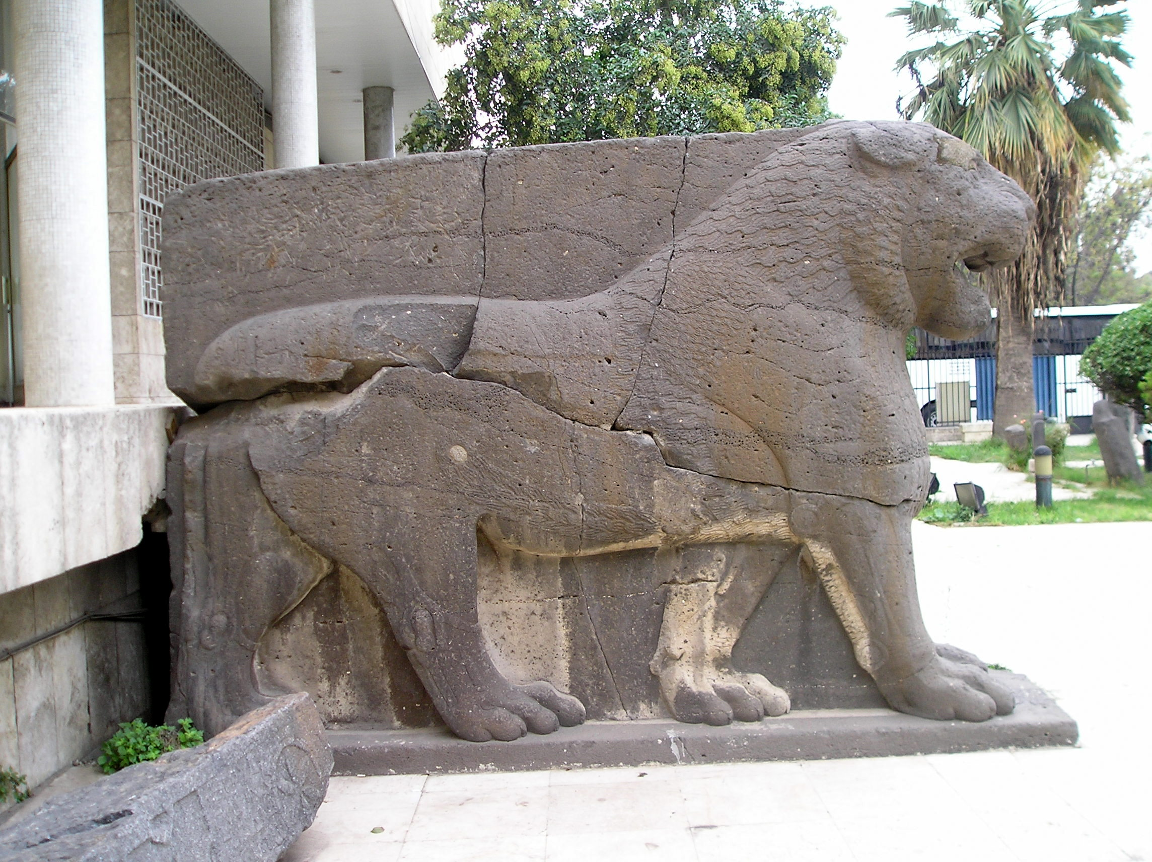 Cracked Basalt lion Aleppo Museum, from Arslan Tash see here